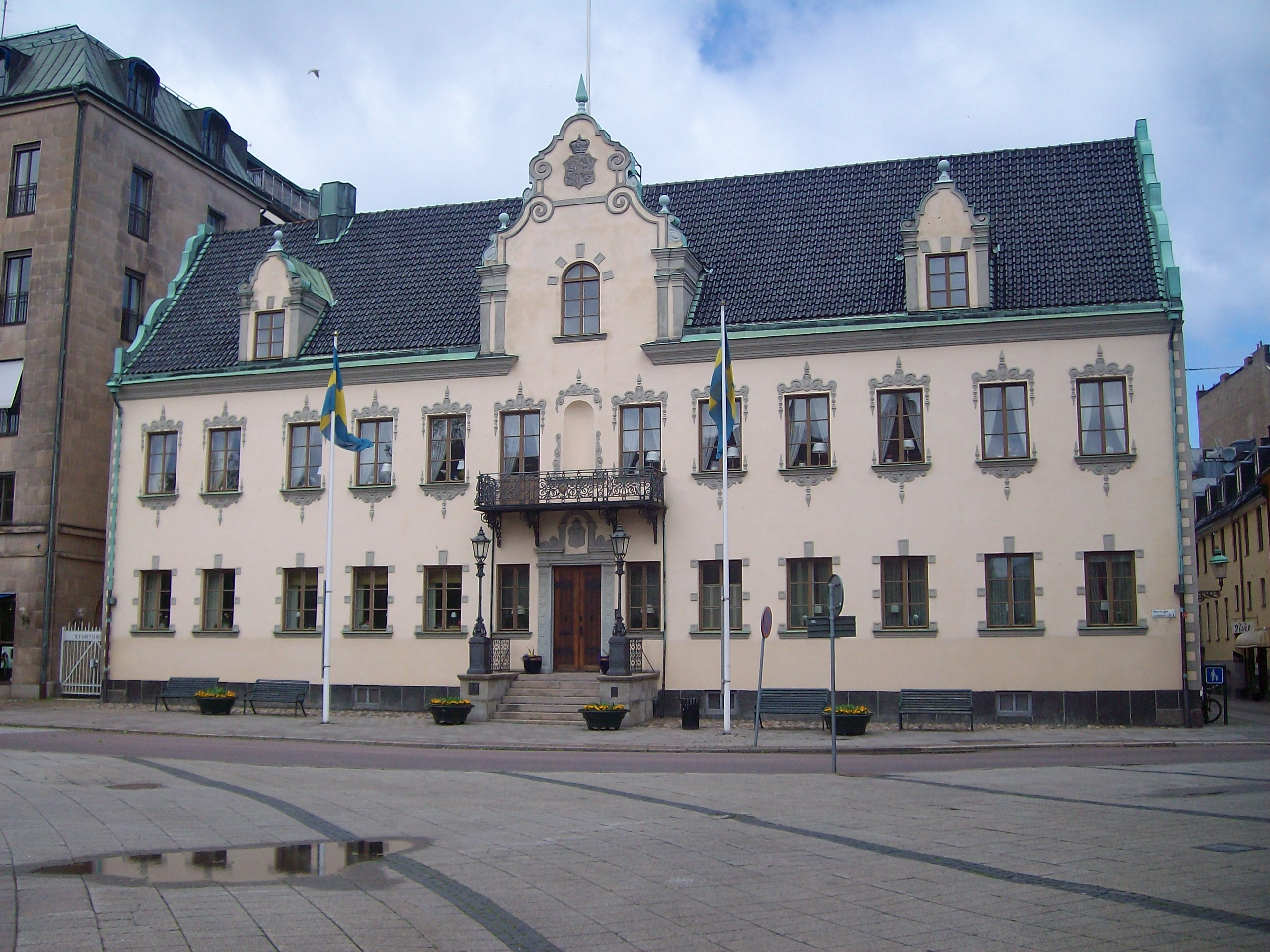 The residence of the Governor in Malmö, Sweden